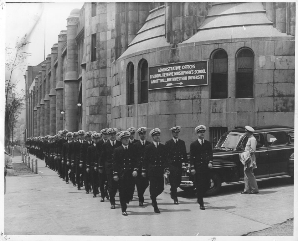 WWII US Naval Reserve Midshipmen School, V-7 Program